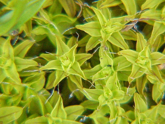 Species: Tortula ruralis Family: ' Image No. 2